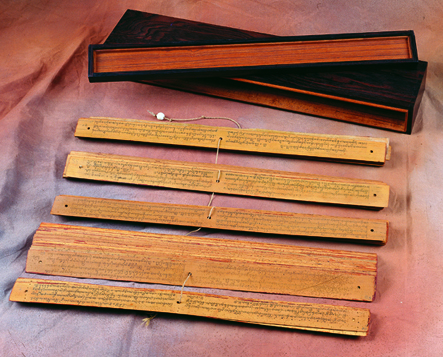 Kakawin Nagarakertagama in palmleaf manuscript called lontar.